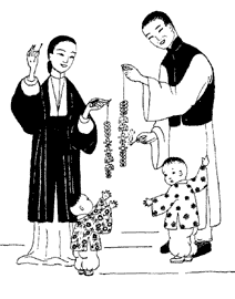 Drawing of a Chinese family burning paper gifts for the departed. The drawing illustrates the book's section on the holiday "Ching Ming" (Qing Ming Jie), with the caption, "Comforts rising to the spirit world in the form of smoke."